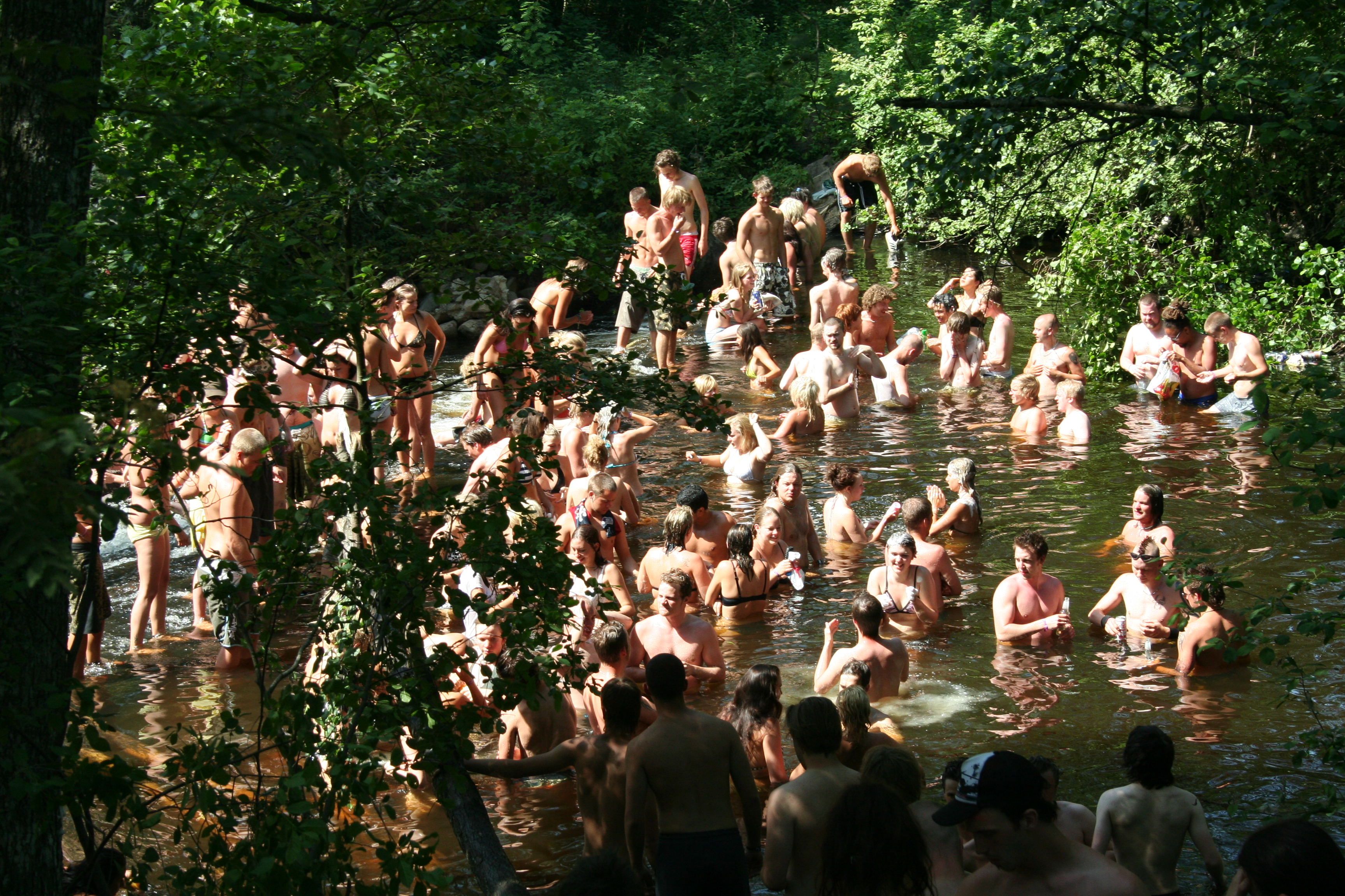 Bathing in lake Hulingen at Hultsfred Festival.